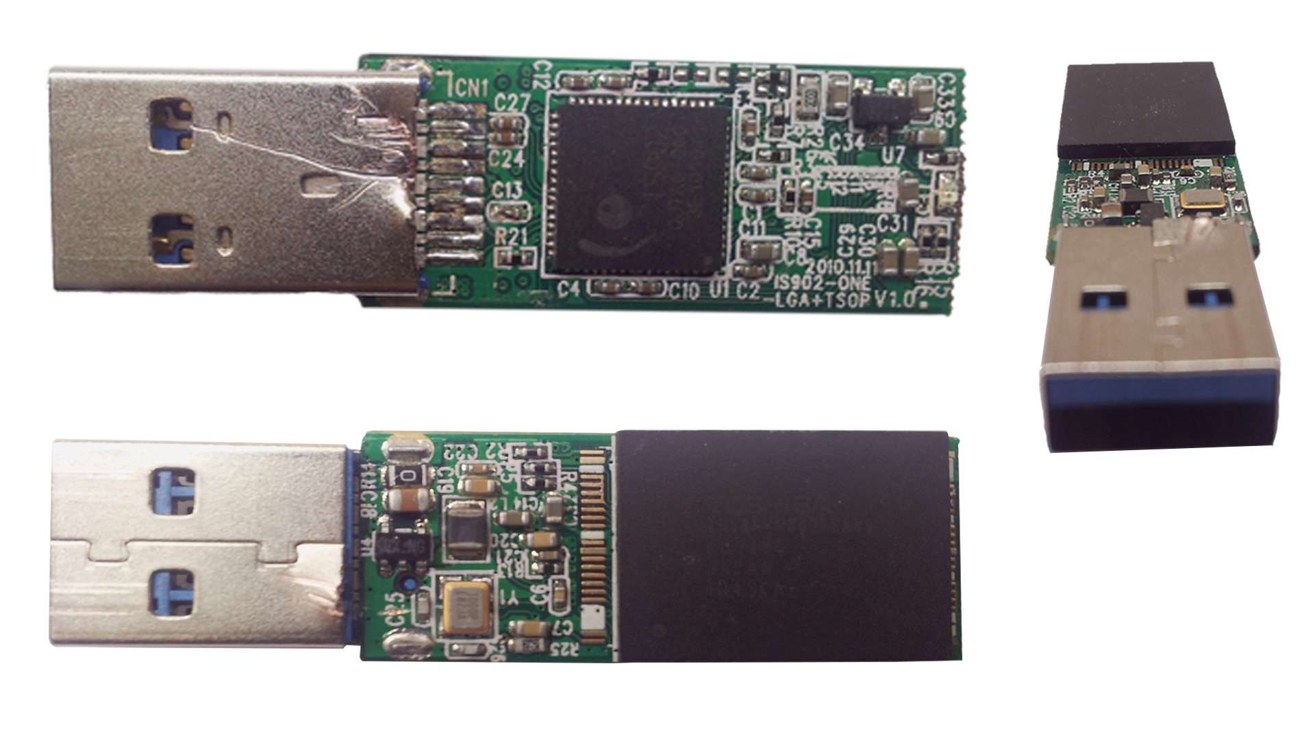 photograph of a printed circuit board